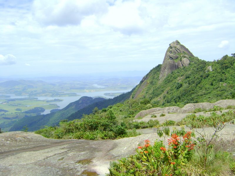 Pico do Lopo, 2009